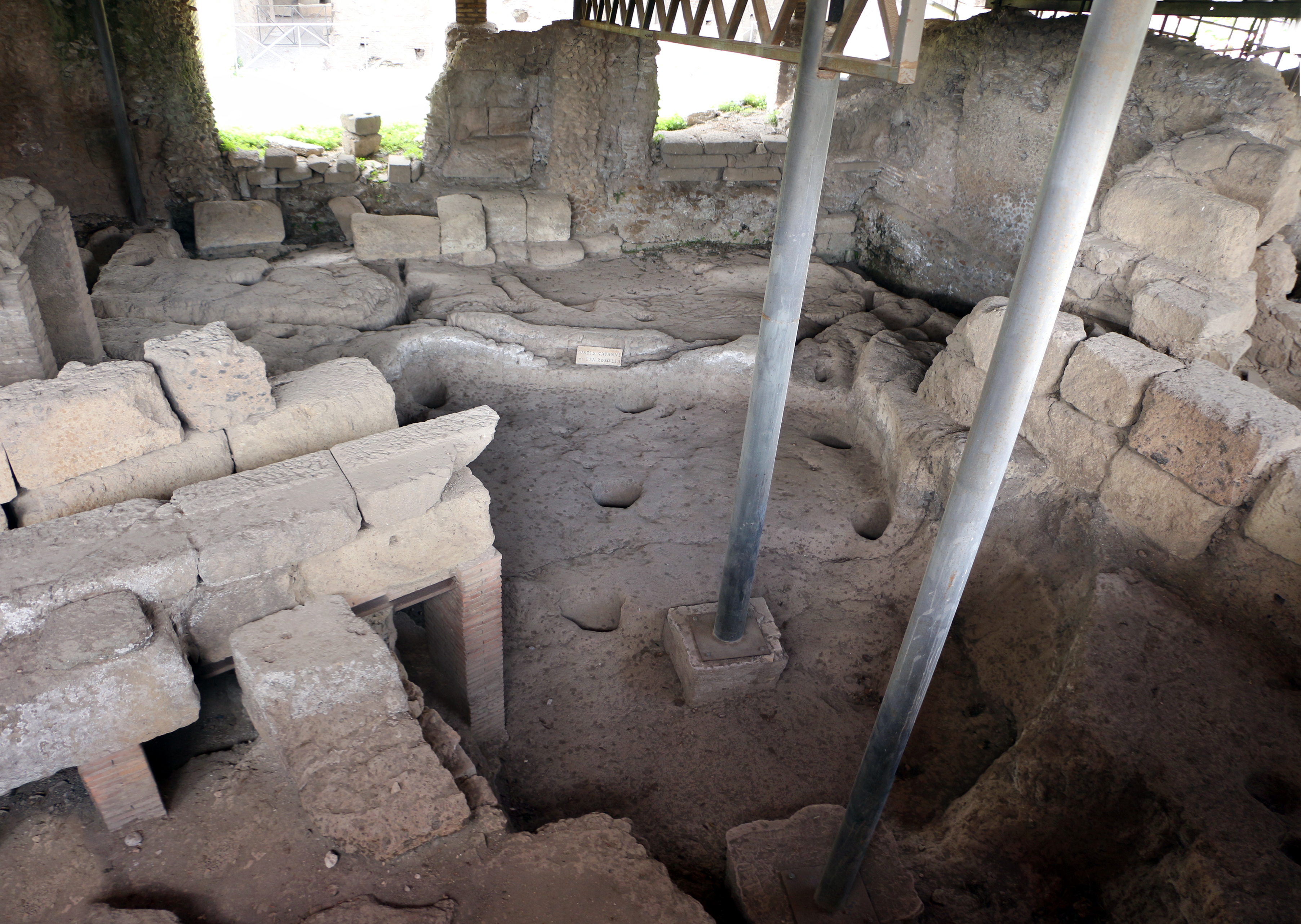 Palatine Hill